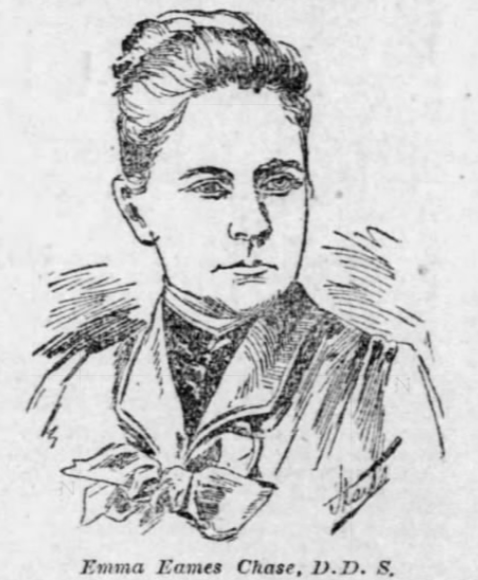 Laura E Eames, Mrs. Laura E Chase, St. Louis dentist. Wife of artist Henry Seymour Chase. About 1890.